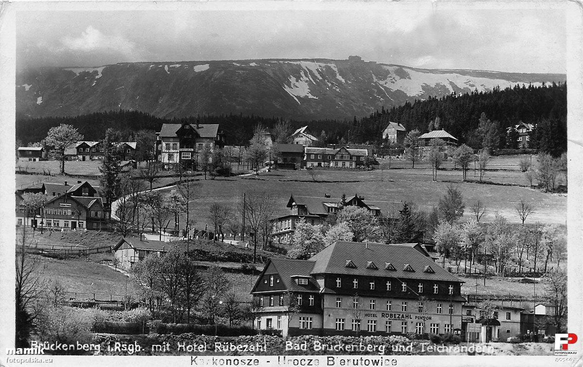 Bierutowice 1930-1944